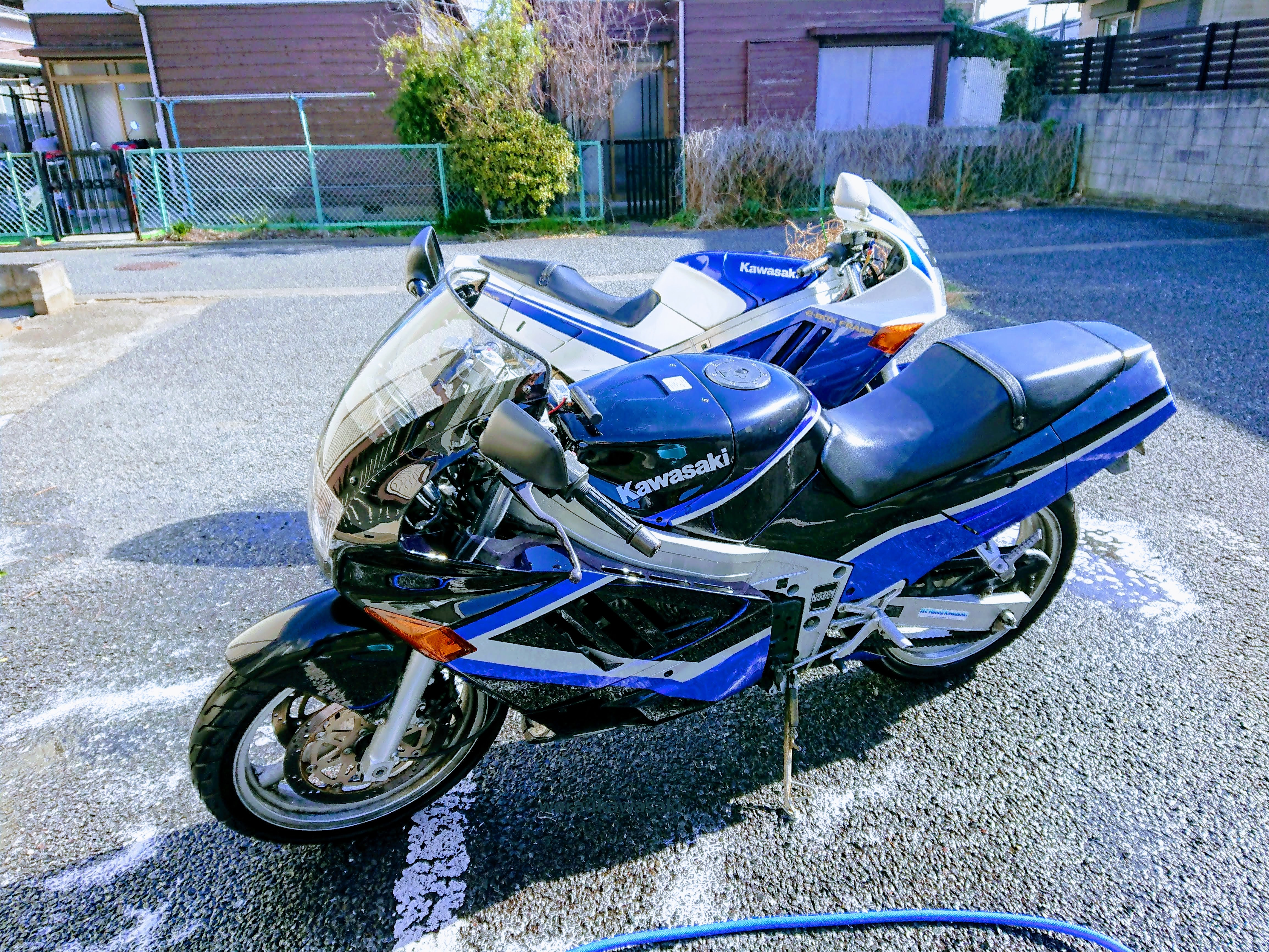 ZX400G1、(B)